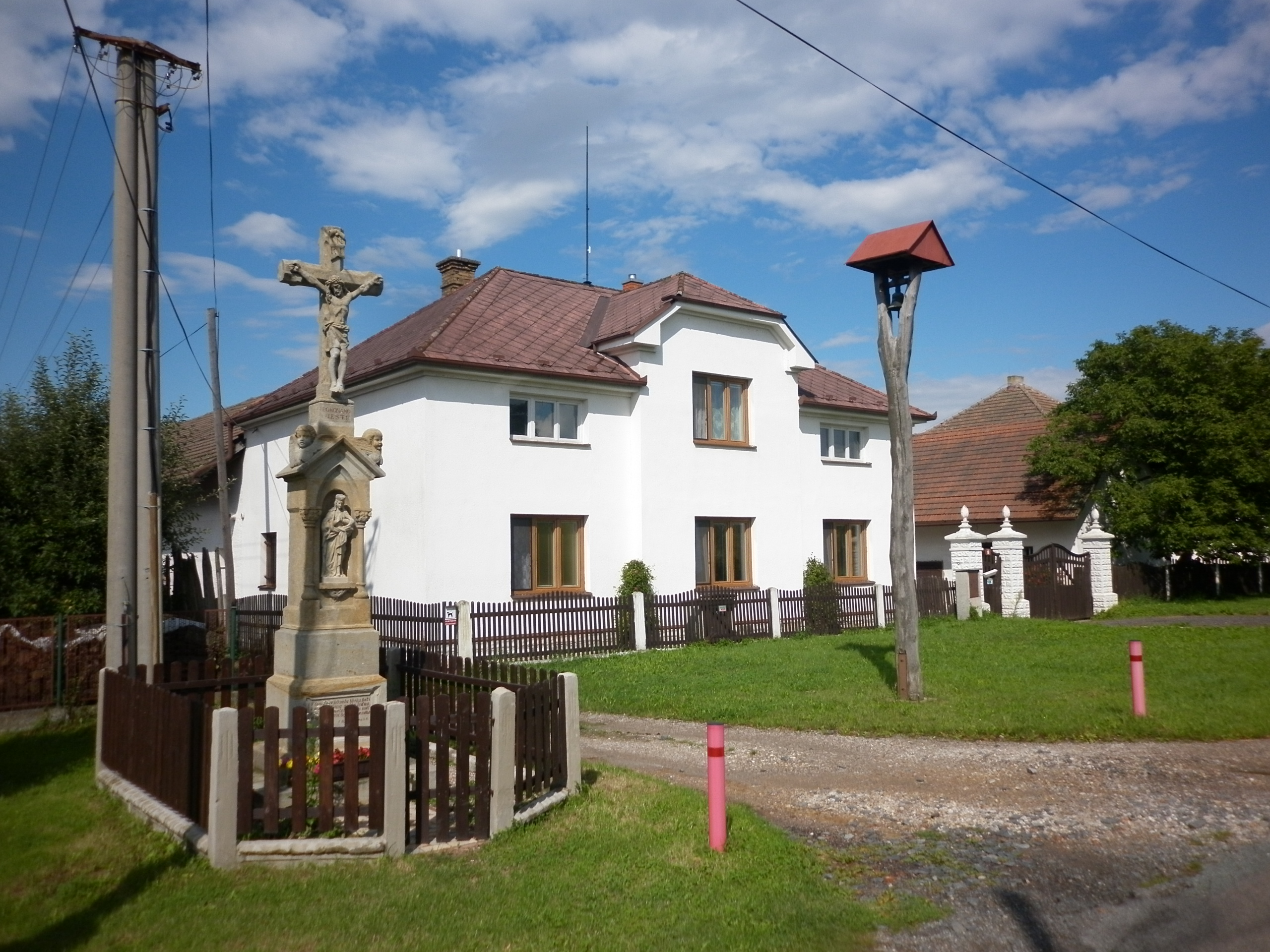 Hrachoviště, part of Býšť, in Pardubice District